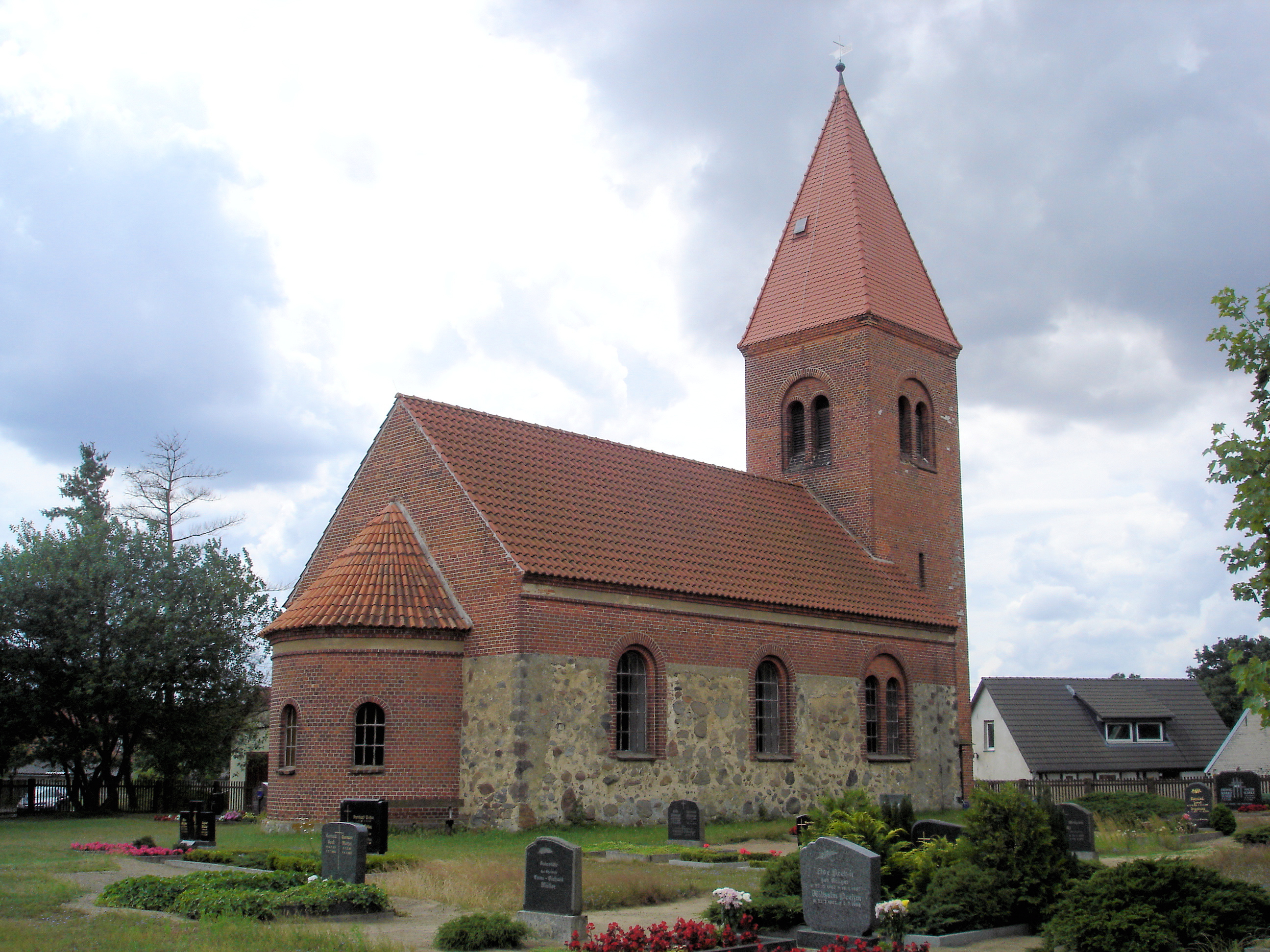 Church in Cheinitz, Saxony-Anhalt, Germany